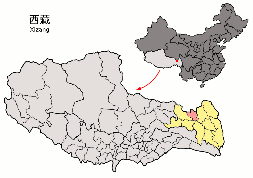 Location of Riwoqê County (pink) and Qamdo Prefecture (yellow) within Tibet (Xizang) autonomous region of China